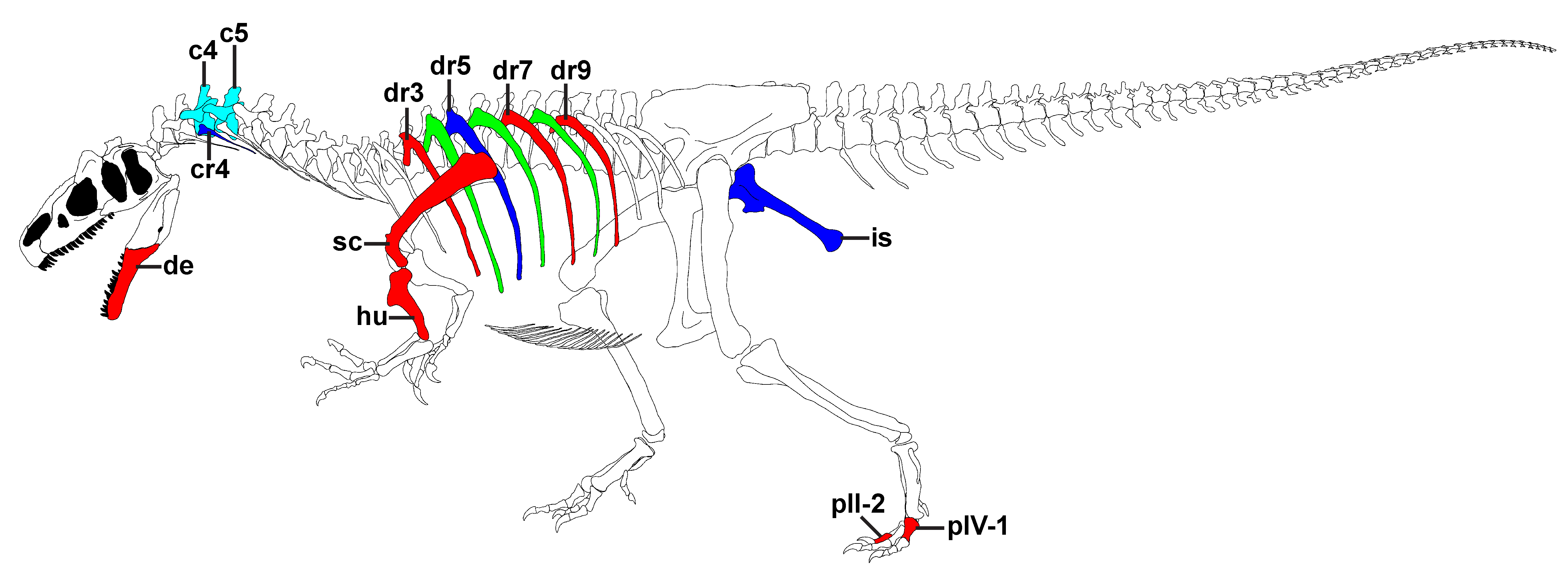 Overview of pathologies in Allosaurus specimen SMA 0005 ("Big Al II"). Skeletal reconstruction of SMA 0005, showing all pathologic bones. Pathologic elements from the left side are shown in red, while respective elements from the right side are marked in blue. Unpaired pathologic bones are colored in cyan. Green ribs represent ribs from the left, for which a pathologic condition is uncertain. Abbreviations: c cervical, cr cervical rib, de dentary, dr dorsal rib, hu humerus, is ischium, p pedal phalanx, sc scapula. Skeletal reconstruction of SMA 1007 0005 with courtesy from the Sauriermuseum Aathal.